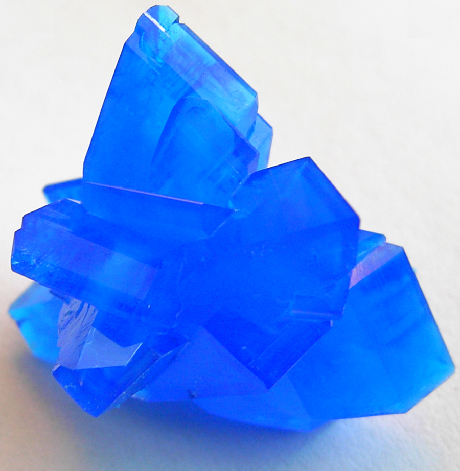 copper sulfate ; mineral name: Chalcanthite